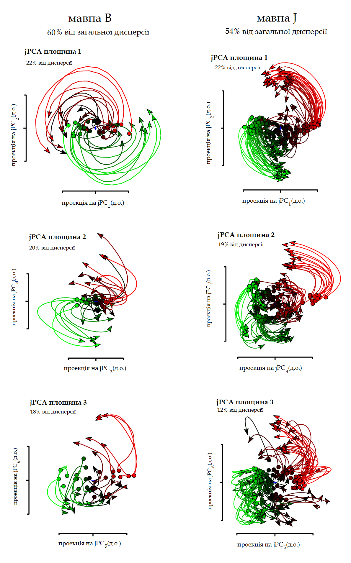 Supplementary figure 4. The data contain multiple planes with rotations. Data are shown for two datasets (monkey B and monkey J-array). Very similar findings were obtained for all datasets. Each column plots the first three jPCA planes (the top six jPCs) found within the top 10 PCs. All three planes contained rotational structure that was coherent (in the same direction and at a similar angular velocity) across conditions. However, rotations were slower (as expected) and less orderly for the higher-numbered jPCA planes. The top three jPCA planes (spanning six dimensions) captured 60% (monkey B) and 54% (monkey J-array) of the total variance in the data.